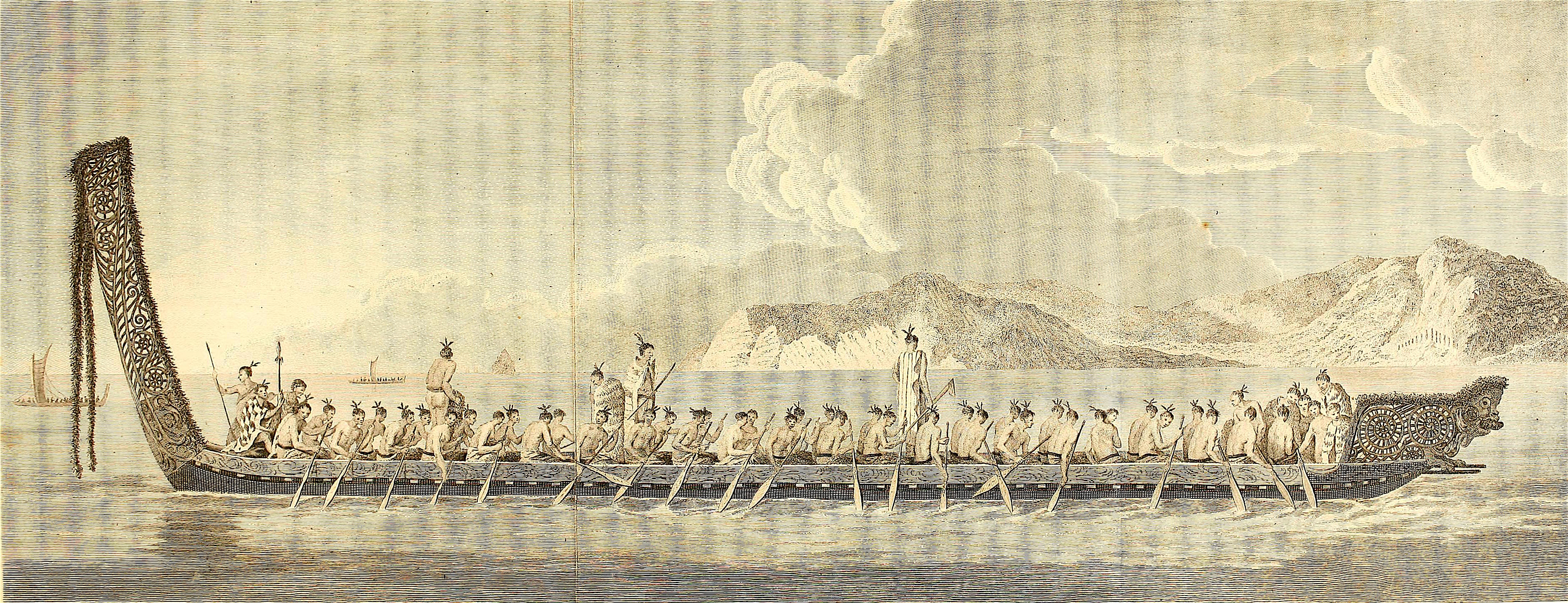 "Of the canoes and navigation of the inhabitants of New Zealand" Title: An account of the voyages undertaken by the order of His present Majesty for making discoveries in the Southern Hemisphere, and successively performed by Commodore Byron, Captain Wallis, Captain Carteret, and Captain Cook, in the Dolphin, the Swallow, and the Endeavour: drawn up from the journals which were kept by the several commanders, and from the papers of Joseph Banks, esq.; Year: 1773 (1770s) Authors: Hawkesworth, John, 1715?-1773, comp. cn Byron, John, 1723-1786. cn Wallis, Samuel, 1728-1795 Carteret, Philip, d. 1796 Cook, James, 1728-1779. cn Banks, Joseph, Sir, 1743-1820. 2n Subjects: Voyages around the world Publisher: London, Printed for W. Strahan and T. Cadell Text Appearing Before Image: vPJ* *:«sa Bfc.Bfilttgij, Hp^pBJrj^&T^^y JgppBJ W *.* H V V / ff 1 ■...:.•/..■■.-.:..:;■.- Text Appearing After Image: ROUND THE WORLD. 463 both confifted of boards of carved work, of which the defign 1770- March. was much better than the execution. All their canoes, ex- 1 ,—«a cept a few at Opoorage or Mercury Bay, which were of onepiece, and hollowed by fire, are built after this plan, andfew are lefs than twenty feet long : fome of the fmaller forthave outriggers, and fometimes two of them are joinedtogether, but this is not common. The carving uponthe (tern and head ornaments of the inferior boats, whichfeem to be intended wholly for fifhing, confifts of thefigure of a man, with a face as ugly as can be conceived,and a monftrous tongue thruft out of the mouth, withthe white fhells of fea-ears ftuck in for the eyes. Butthe canoes of the fuperior kind, which feem to be their menof war, are magnificently adorned with open work, and co-vered with loofe fringes of black feathers, which had a moll;elegant appearance: the gunwale boards were alfo fre-quently carved in a grotefque tafte, and adorned wi